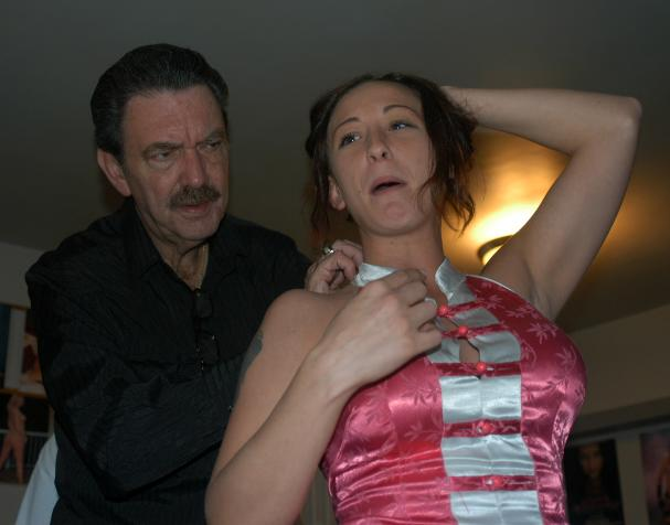 Porn star Serena Marcus with agent Jim South at the World Modeling Talent Agency